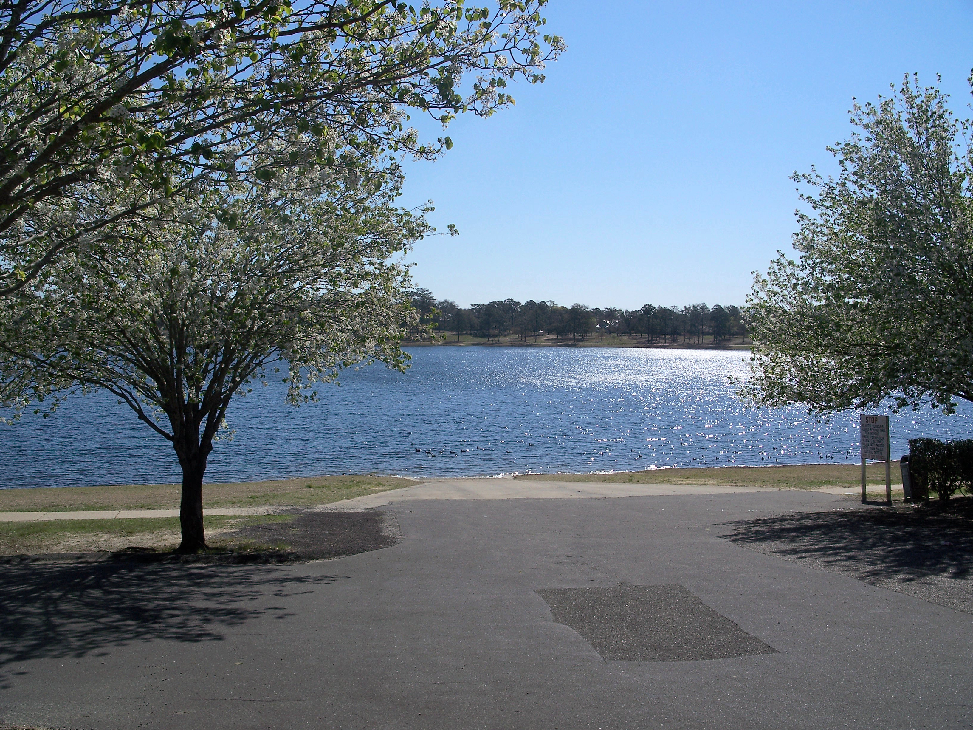 DeFuniak Springs, Florida: DeFuniak Springs Historic District: Lake DeFuniak, heart of the district.